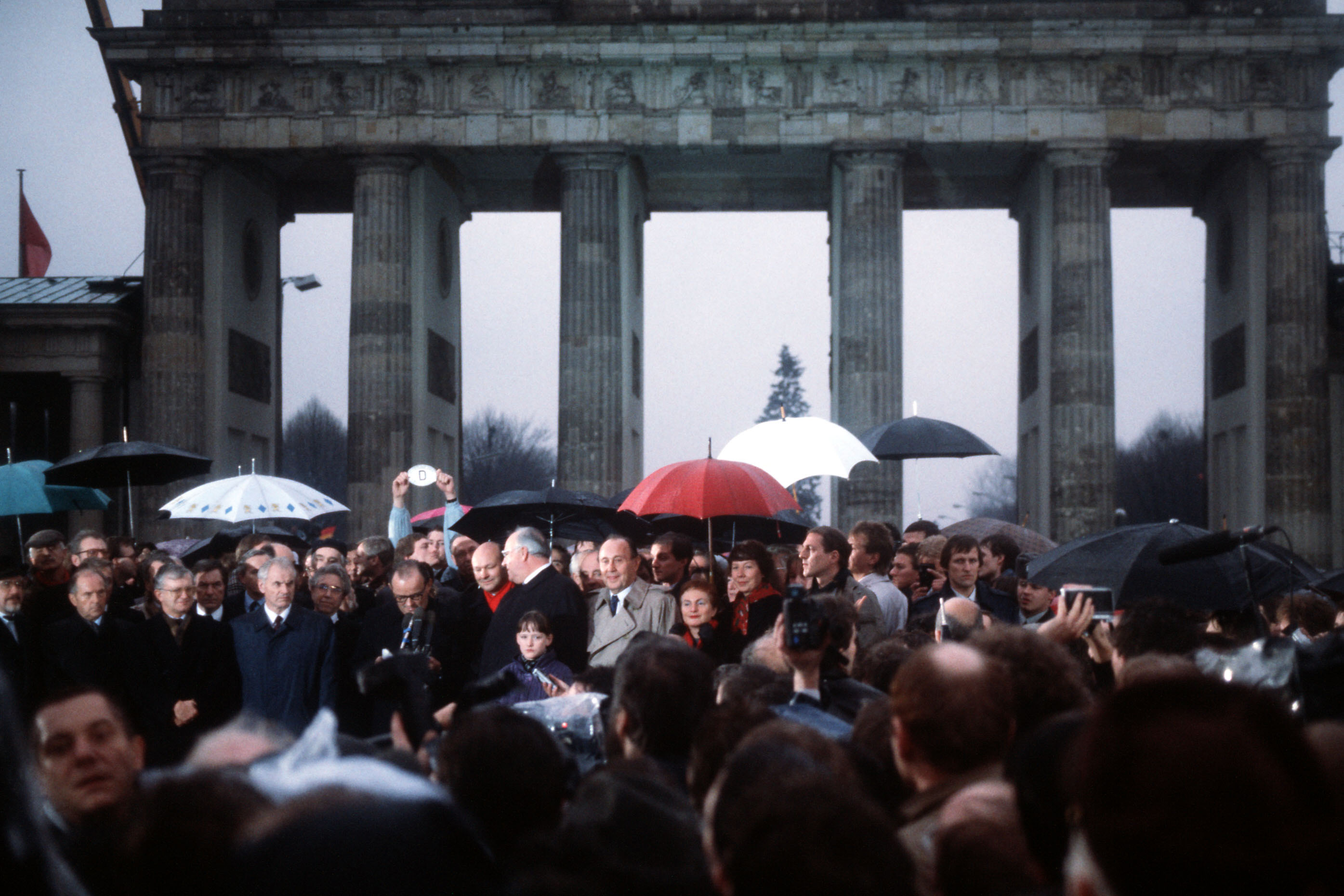 German politicians at the opening of the Brandenburg Gate on 22 December 1989 (l-r, first row): Spokesman Hans Klein, ?, Head of the Office of the German Chancellery Rudolf Seiters, Chairman of the Council of Minsters of the GDR Hans Modrow, Mayor of East Berlin Erhard Krack (speaking), Mayor of West Berlin Hans Momper, Chancellor Helmut Kohl, Momper's daughter Friederike, Foreign Minister Hans-Dietrich Genscher.